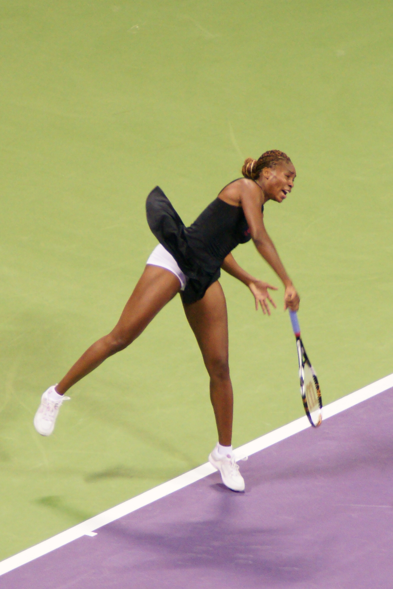 Venus Williams at the 2008 WTA Tour Championships